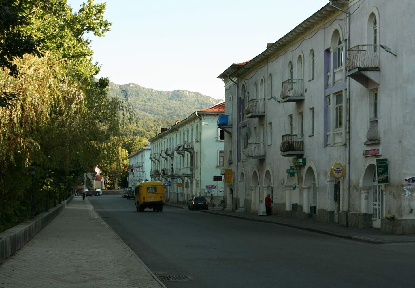 Tkibuli, Georgia. A street in the city centre